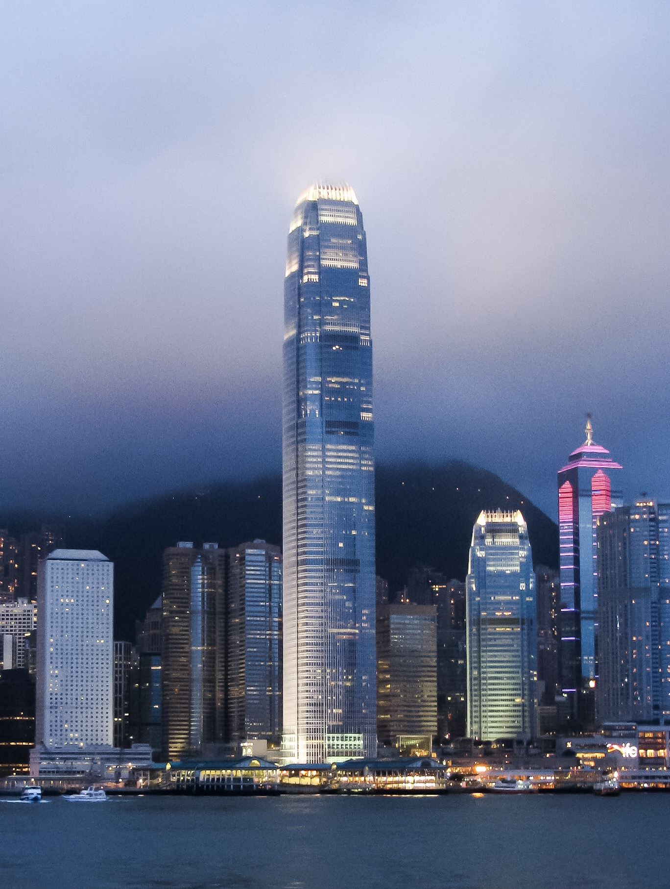 The low cloud was tailor-made to show off the huge IFC tower.